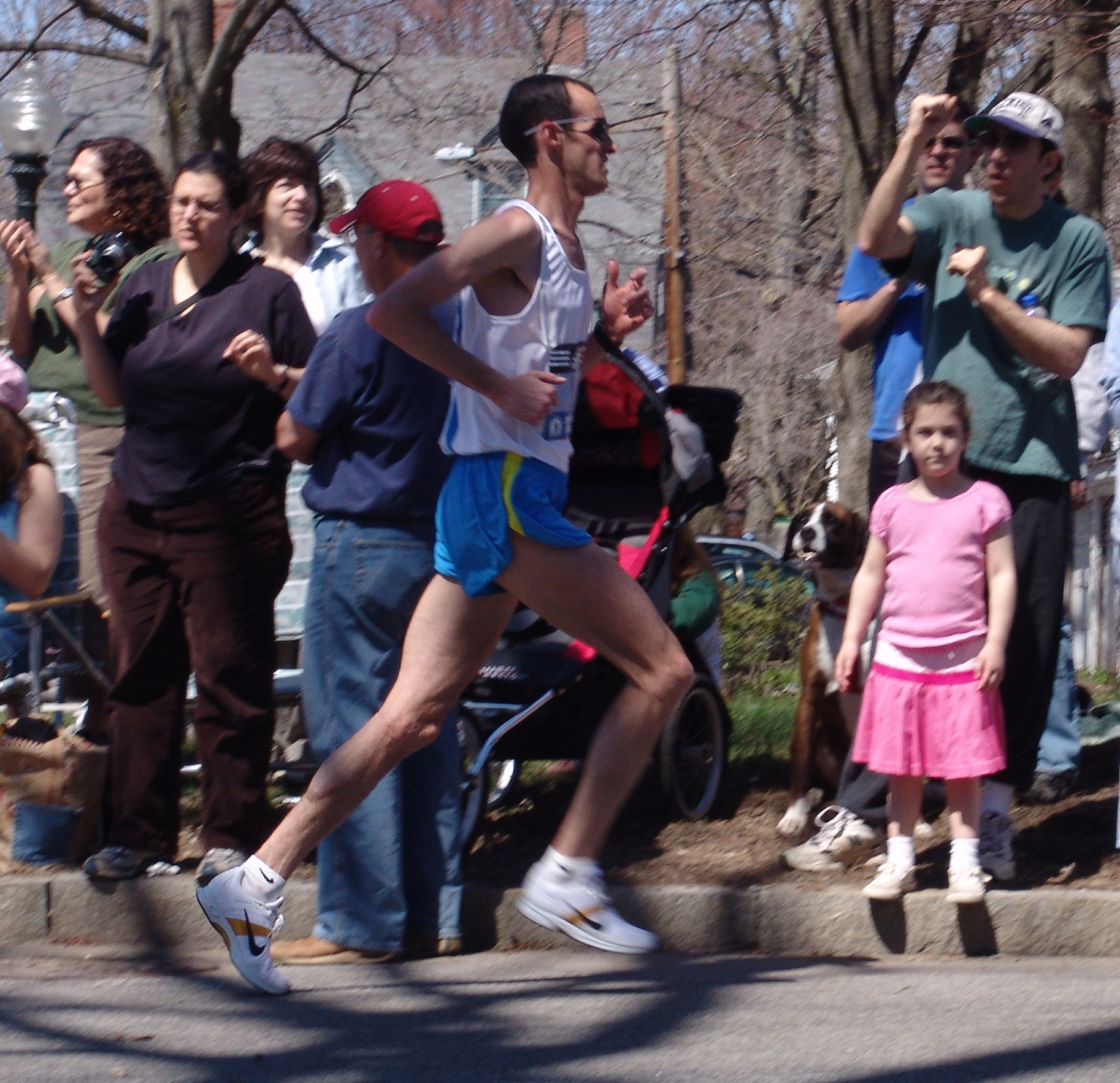 Boston Marathon 2005 Culpepper finished fourth.